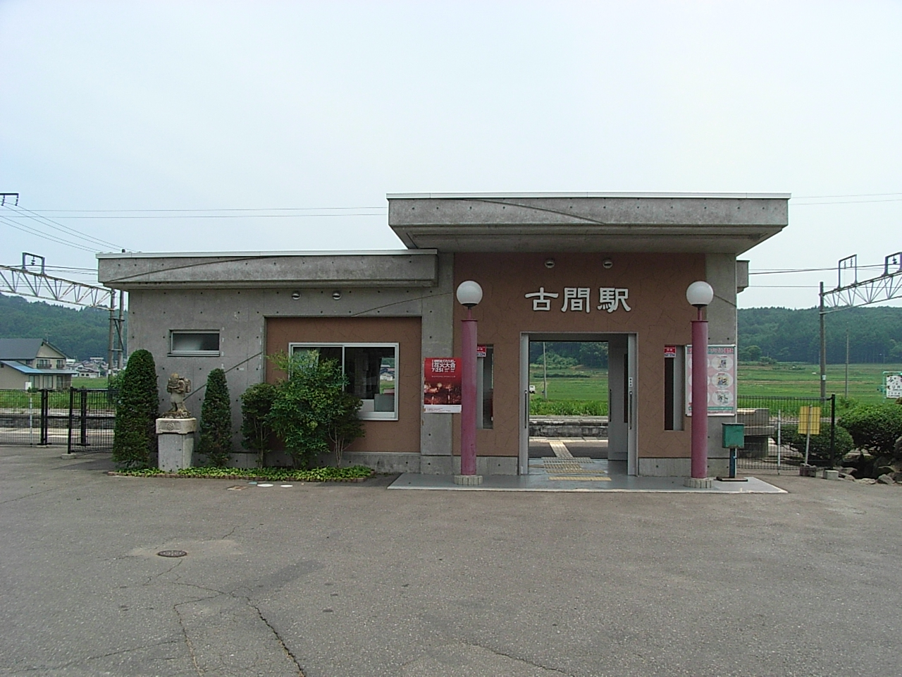 Furuma Station on Shinatetsu Kita-Shinano Line (409, Tomino, Shinano-machi, Kamiminochi-gun, Nagano-ken, Japan)